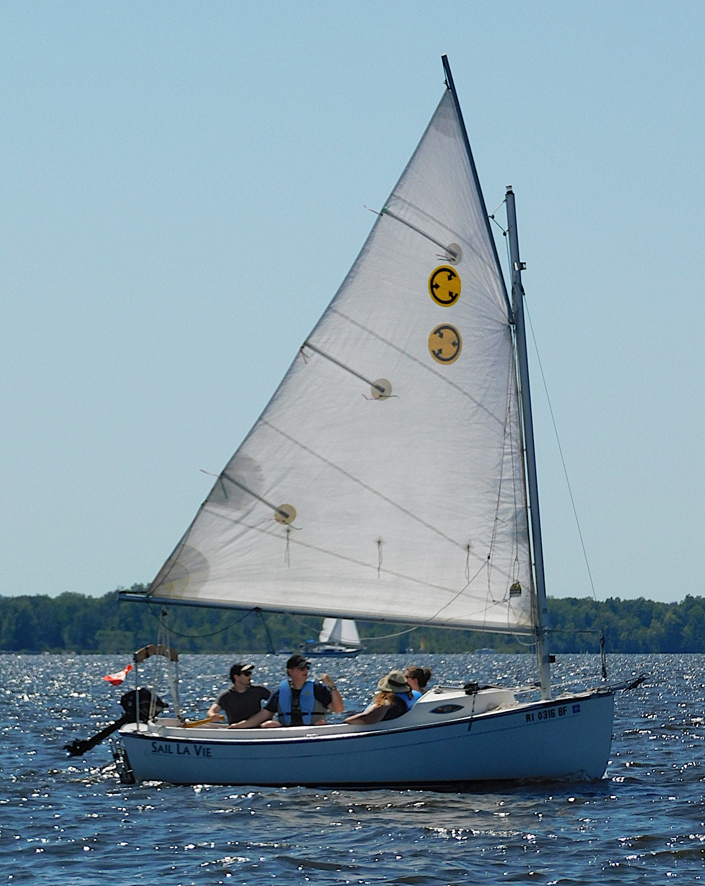 A Com-Pac Sunday Cat sailboat named Sail La Vie.